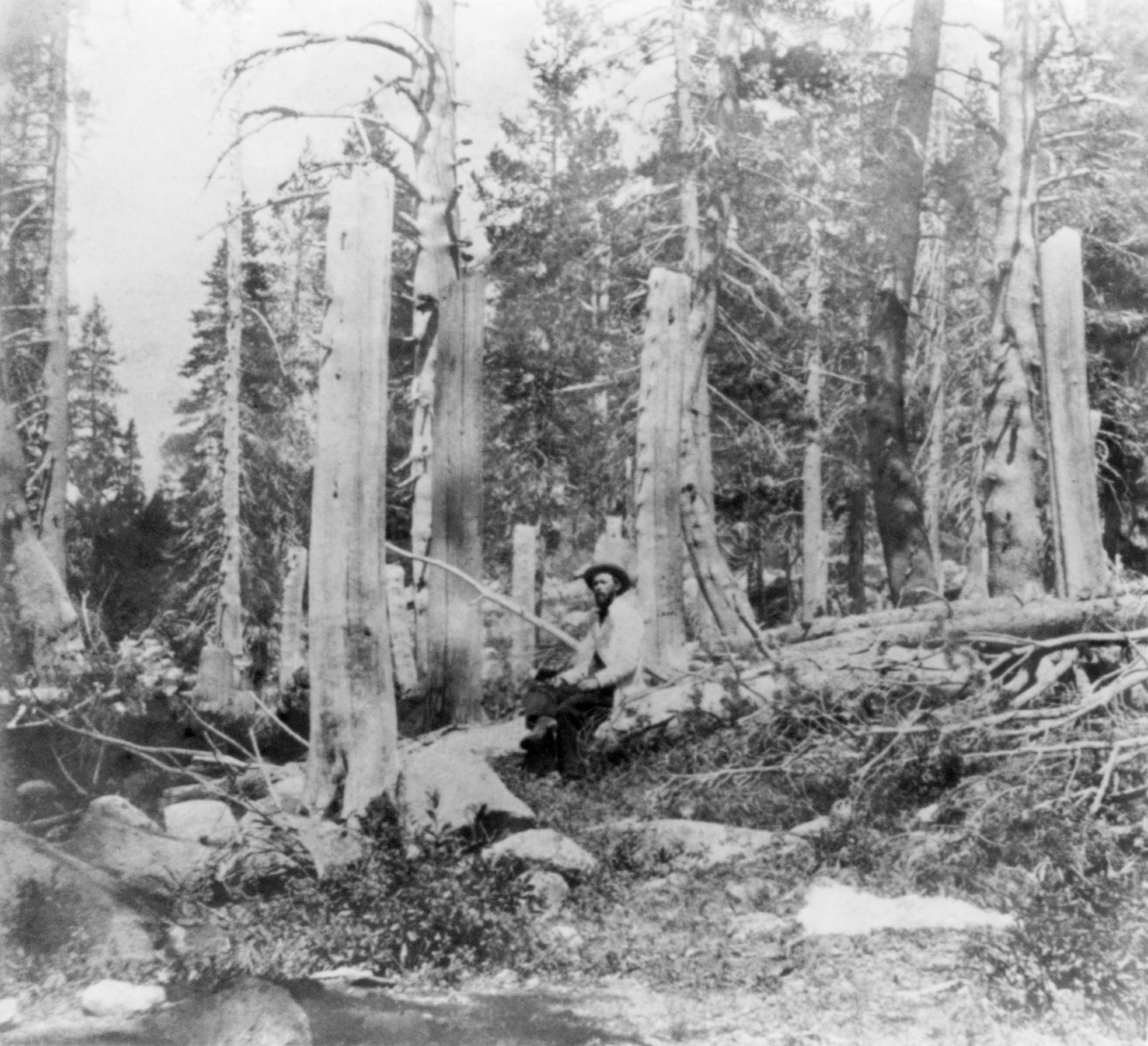 "Stumps of trees cut by the Donner Party in Summit Valley, Placer County" Grayscaled albumen print, half stereograph. Published as Gems of California scenery, no. 778 (1866).[1]